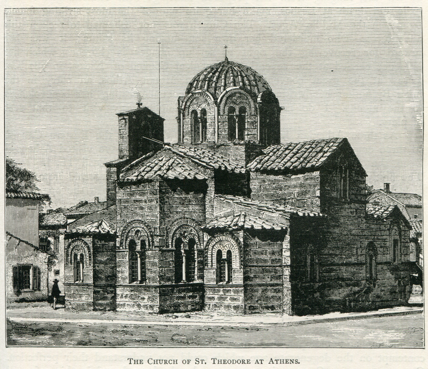 John Pentland Mahaffy. Greek Pictures, drawn by Pen and Pencil, by J. P. Mahaffy, London, The Religious Tract Society, 1890